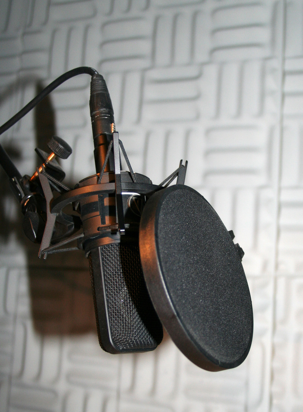 Studio condensor microphone with pop shield